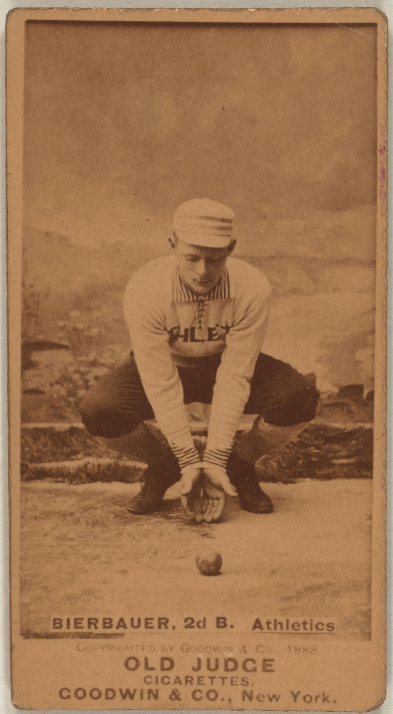 Lou Bierbauer, from Benjamin K. Edwards Baseball Card Collection.